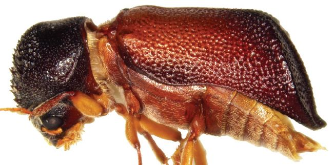 Xylopsocus capucinus, lateral view.